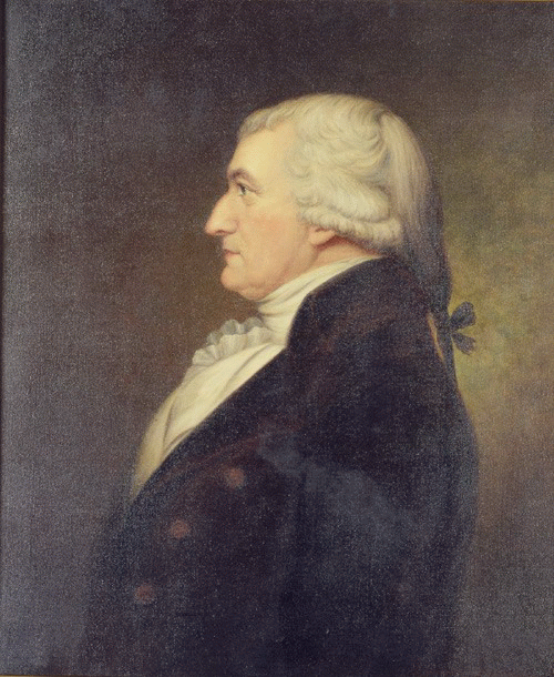 Henry Latimer